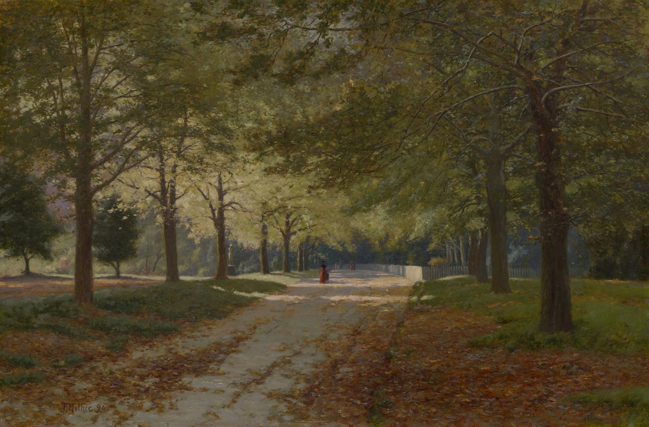 John Mather: Autumn in the Fitzroy Gardens, 1894, oil on canvas: 61.0 × 91.3 cm. National Gallery of Victoria, Melbourne, Australia.